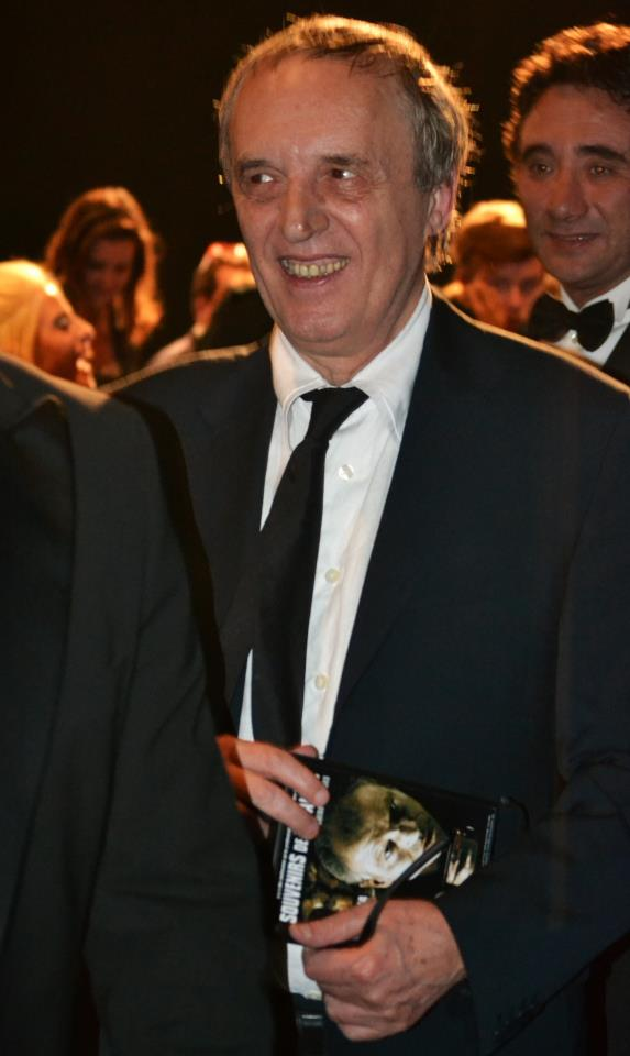 Dario Argento at the screening of "Dracula 3D" at the Cannes film festival